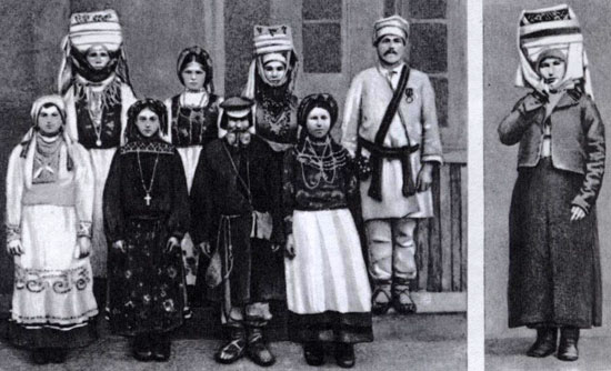 Belarusians from Stolin district, south Belarus. Prewar photo.